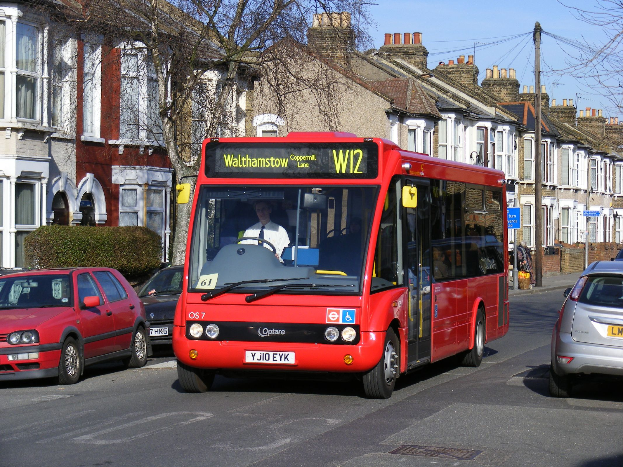 CT Plus bus OS7 (reg. YJ10 EYK), a 2010 Optare Solo M810 midibus, approaches the western terminus of route W12 at Coppermill Lane, Walthamstow. CT Plus had recently successfully tendered for the W12 back streets route in Walthamstow.